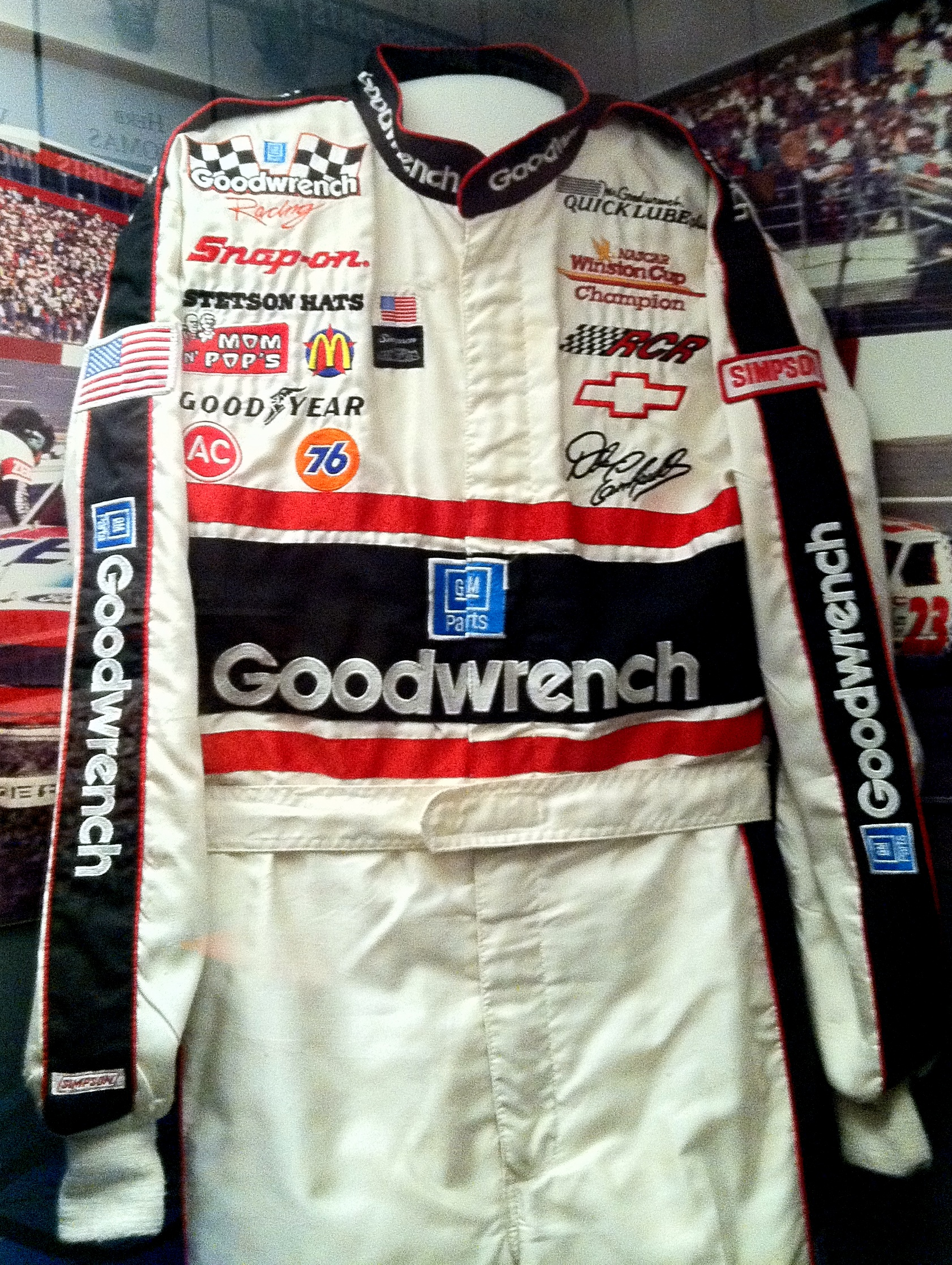 Racing suit belonging to Dale Earnhadt at the North Carolina Sports Hall of Fame in Raleigh, NC